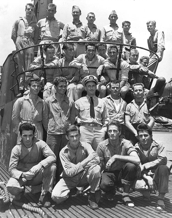 The U.S. Navy submarine USS Tang (SS-306) at Pearl Harbor, Hawaii (USA), in May 1944. The submarine's Commanding Officer, Lieutenant Commander Richard H. O'Kane (center), poses with the twenty-two aircrewmen that Tang rescued off Truk during the carrier air raids there on 29 April-1 May 1944. The photograph was taken upon Tang´s return to Pearl Harbor from her second war patrol, in May 1944. Those present are are (front row, left to right): Aviation Radioman 2nd Class Harry B. Gemmell; Aviation Radioman 2nd Class Joseph Hranek; Aviation Radioman 1st Class James L. Livingston; and Aviation Machinist's Mate 3rd Class Joseph D. Gendron; (second row, l-r): Aviation Machinist's Mate 1st Class Robert W. Gruebel; Aviation Radioman 2nd Class Robert E. Hill; Lieutenant Commander Richard H. O'Kane; Aviation Ordnanceman 2nd Class H.A. Thompson; and Aviation Radioman 2nd Class Aubrey J. Gill; (third row, l-r): Ensign Carroll L. Farrell; Lieutenant (Junior Grade) James G. Cole; Lieutenant John J. Dowdle, Jr.; Lieutenant (Junior Grade) J.A. Burns; Lieutenant (Junior Grade) Robert T. Barbor; Lieutenant Harry E. Hill; and Lieutenant (Junior Grade) Scott Scammell II; (top row, l-r): Aviation Machinist's Mate 2nd Class Owen F. Taburn; Lieutenant (Junior Grade) Robert F. Kanze; Lieutenant Donald Kirkpatrick, Jr.; Aviation Radioman 2nd Class James J. Lenahan; Commander Alfred R. Matter; Aviation Ordnanceman 2nd Class Richard L. Bentley; and Lieutenant Robert S. Nelson.